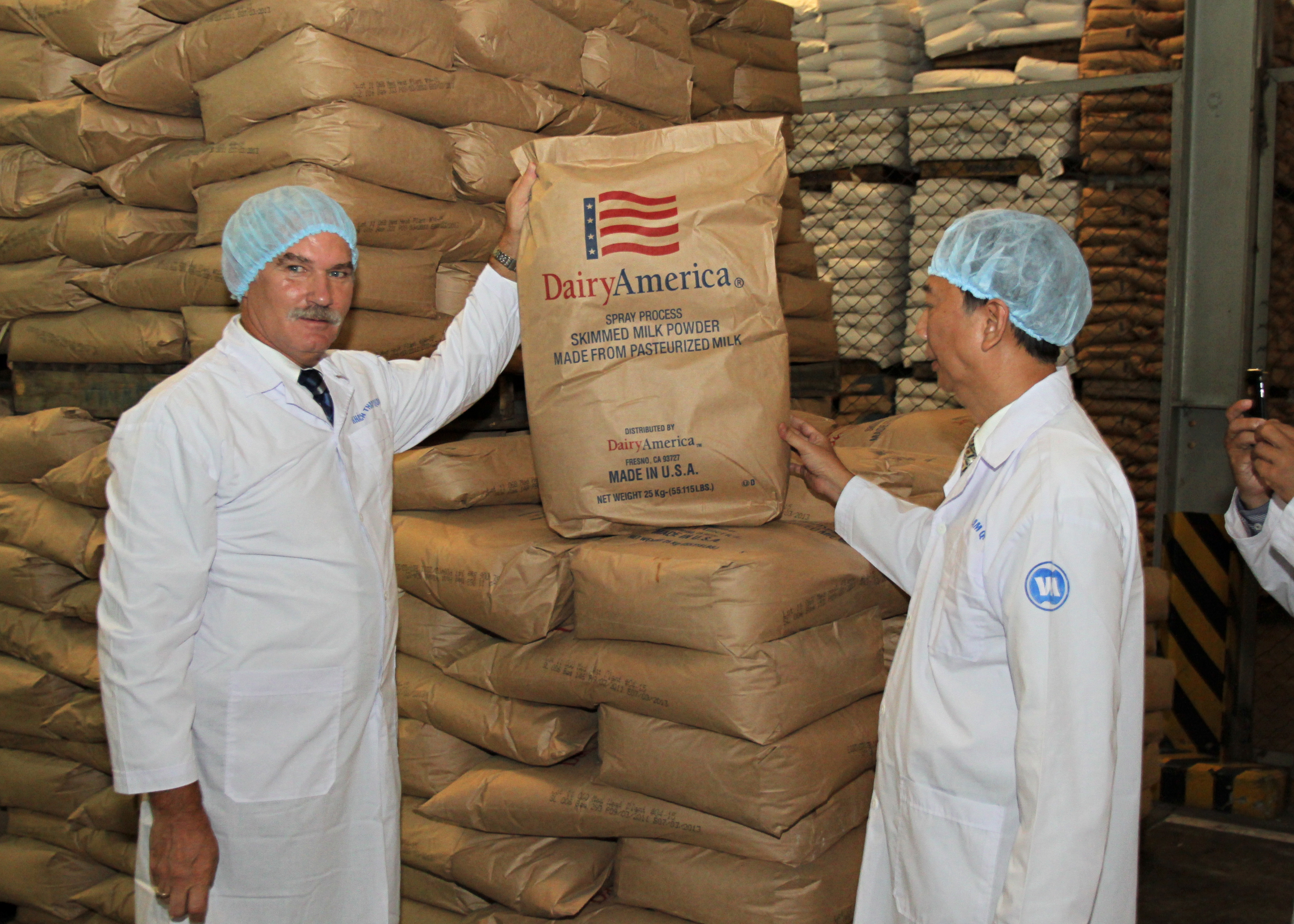 Acting Under Secretary for Farm and Foreign Agricultural Services Michael Scuse (left) tours a Vinamilk factory in Ho Chi Minh City, Vietnam and sees dairy products the company has imported from the United States. Vinamilk is Vietnam’s largest dairy processing company and its general manager, Nguyen Quoc Khanh (right) is a 1998 alum of the Foreign Agricultural Service’s Cochran Fellowship Program. Scuse was in Vietnam last week leading USDA’s first agricultural trade mission there. Photo by Le Sy Hoang Chuong